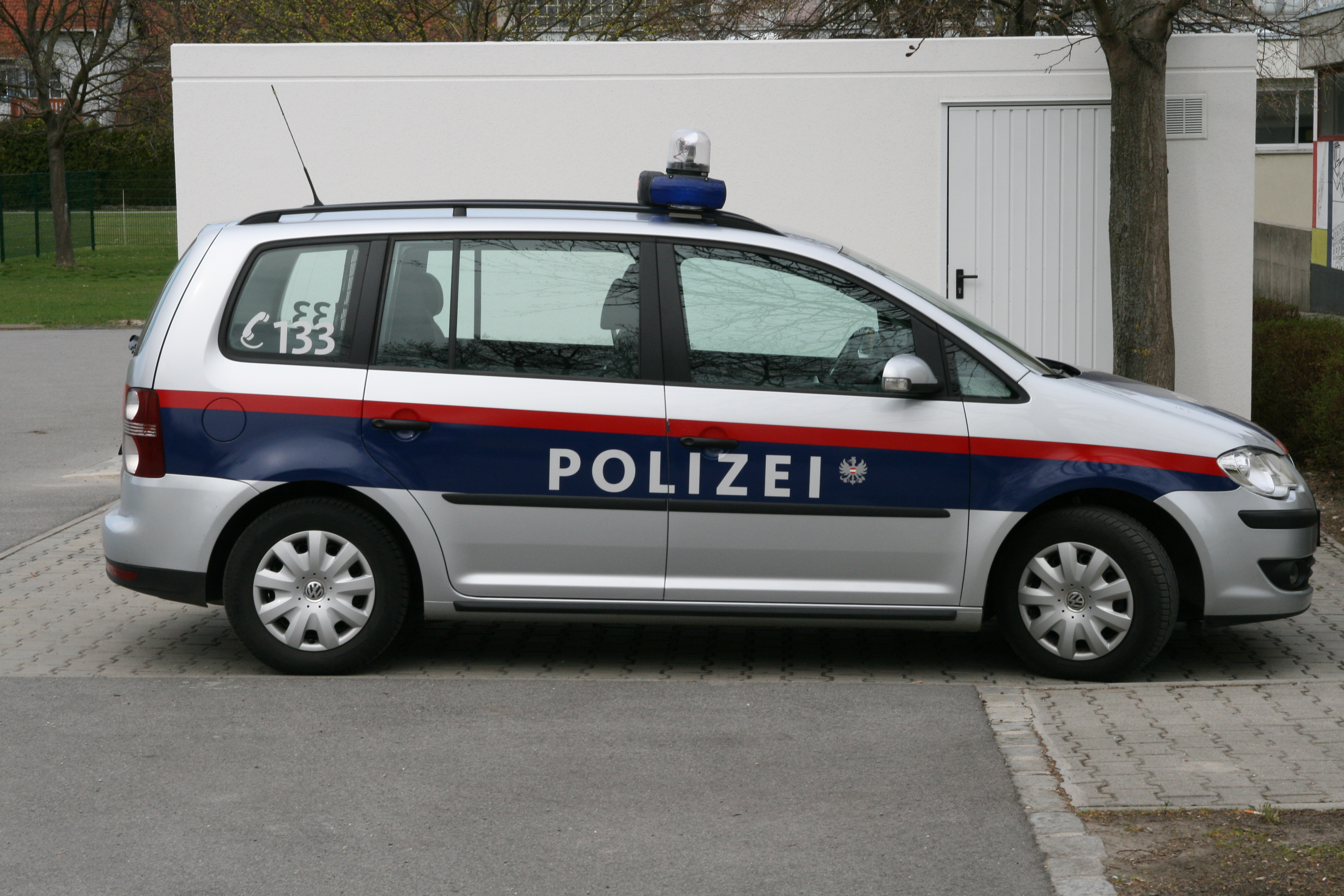 VW Touran police car of the austrian Federal Police.